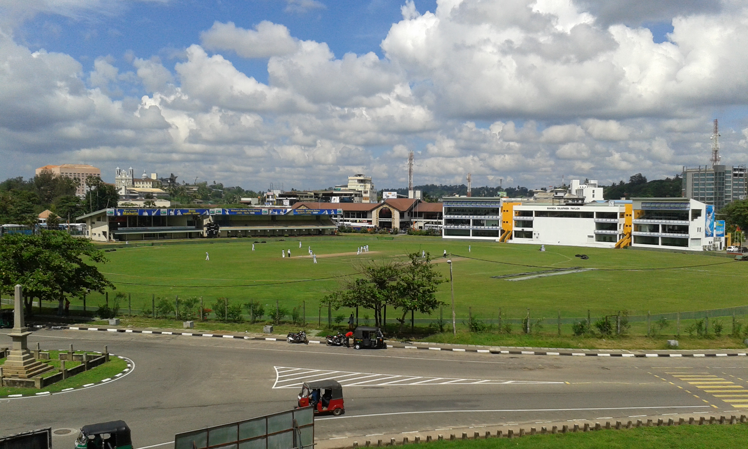 Galle International Stadium, view from Galle Fort.